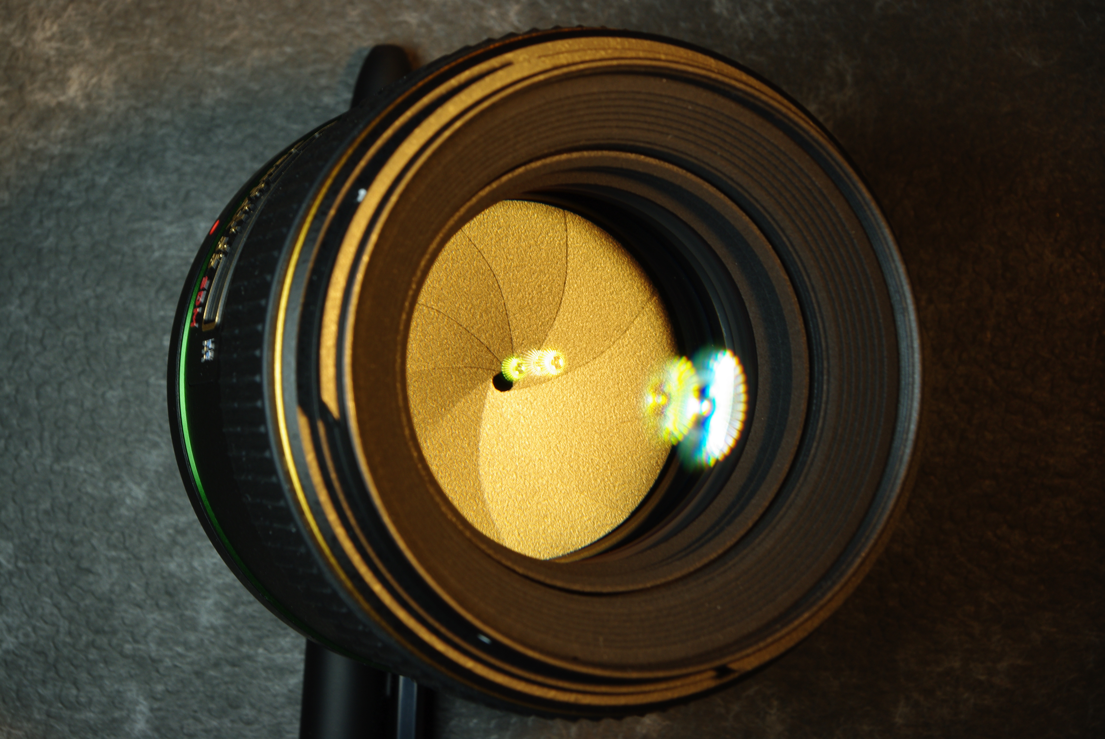 Pentax DA 55mm 1.4 SDM front aperture